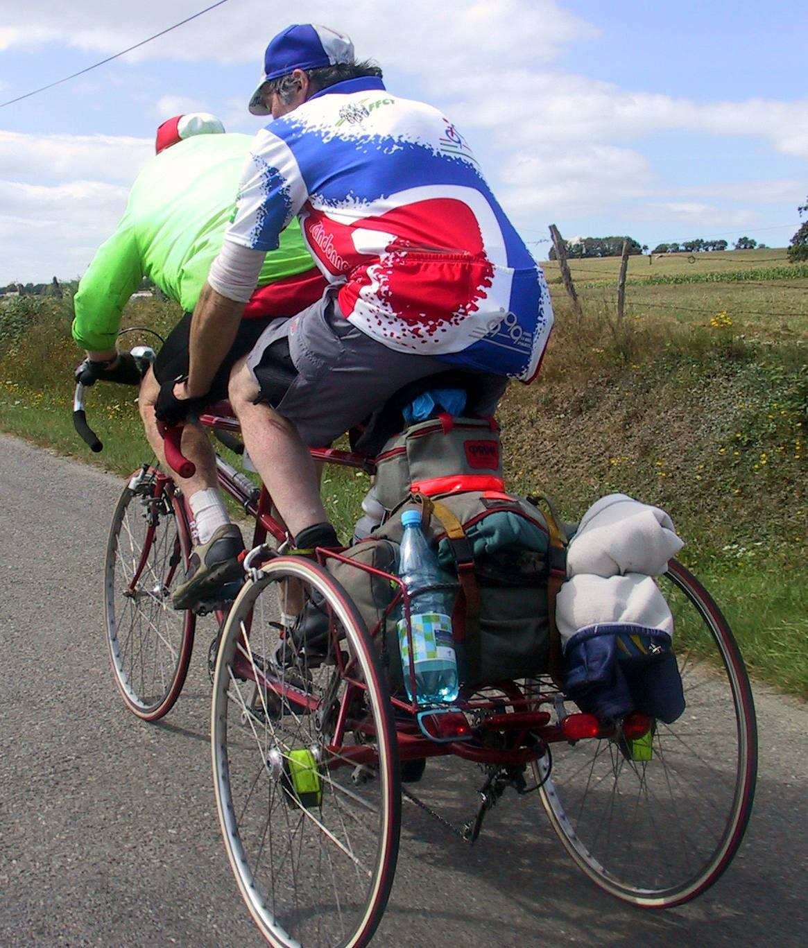 Tandem tricycle